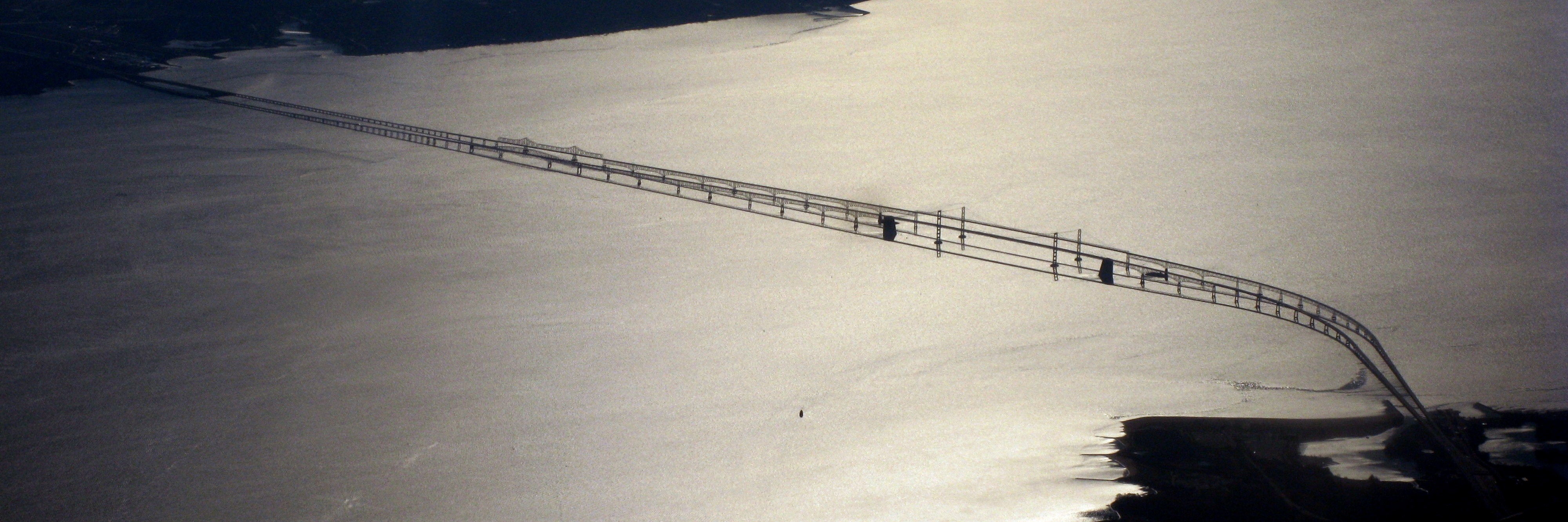 Aerial view of the Chesapeake Bay Bridge between Anne Arundel County and Queen Anne's County in Maryland